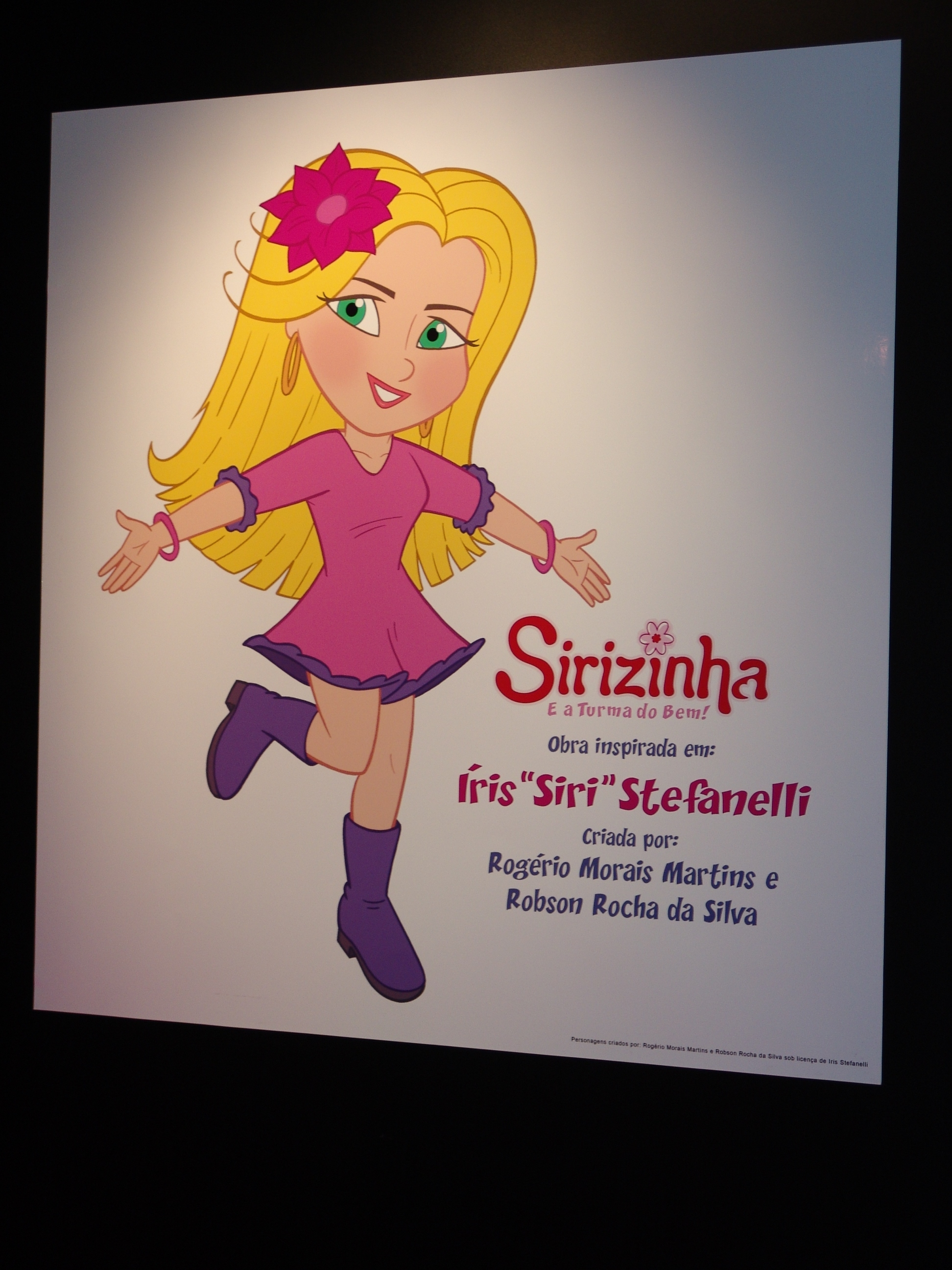 Sirizinha is a character based on Íris Stefanelli.